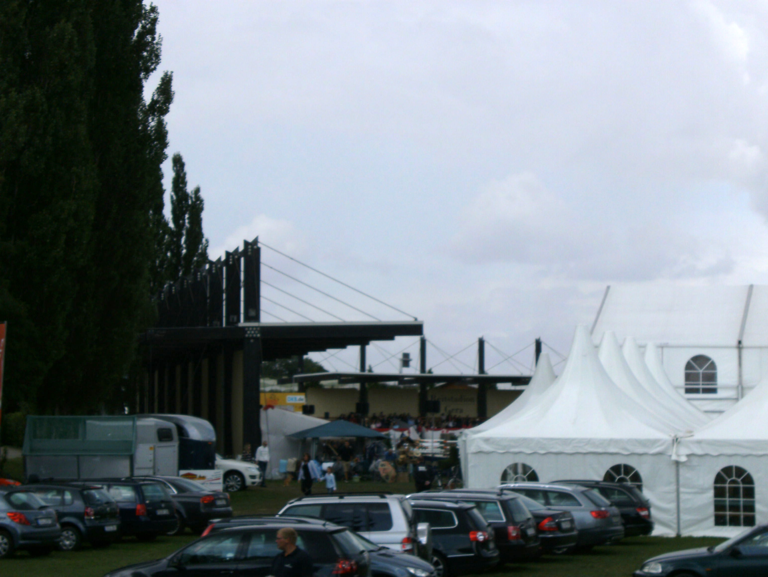 International equestrian center during summer championships 2009.